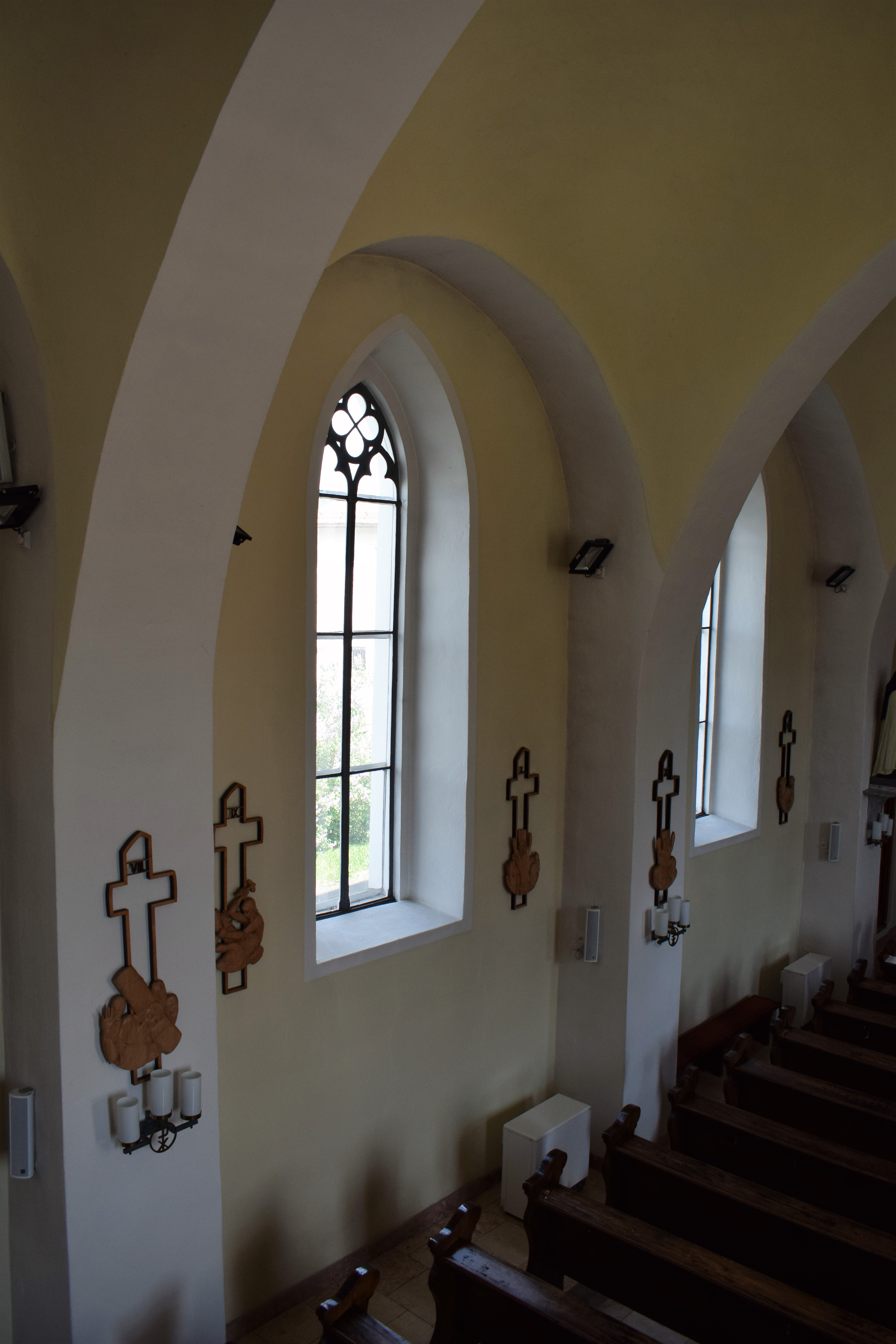 interior of castle 2